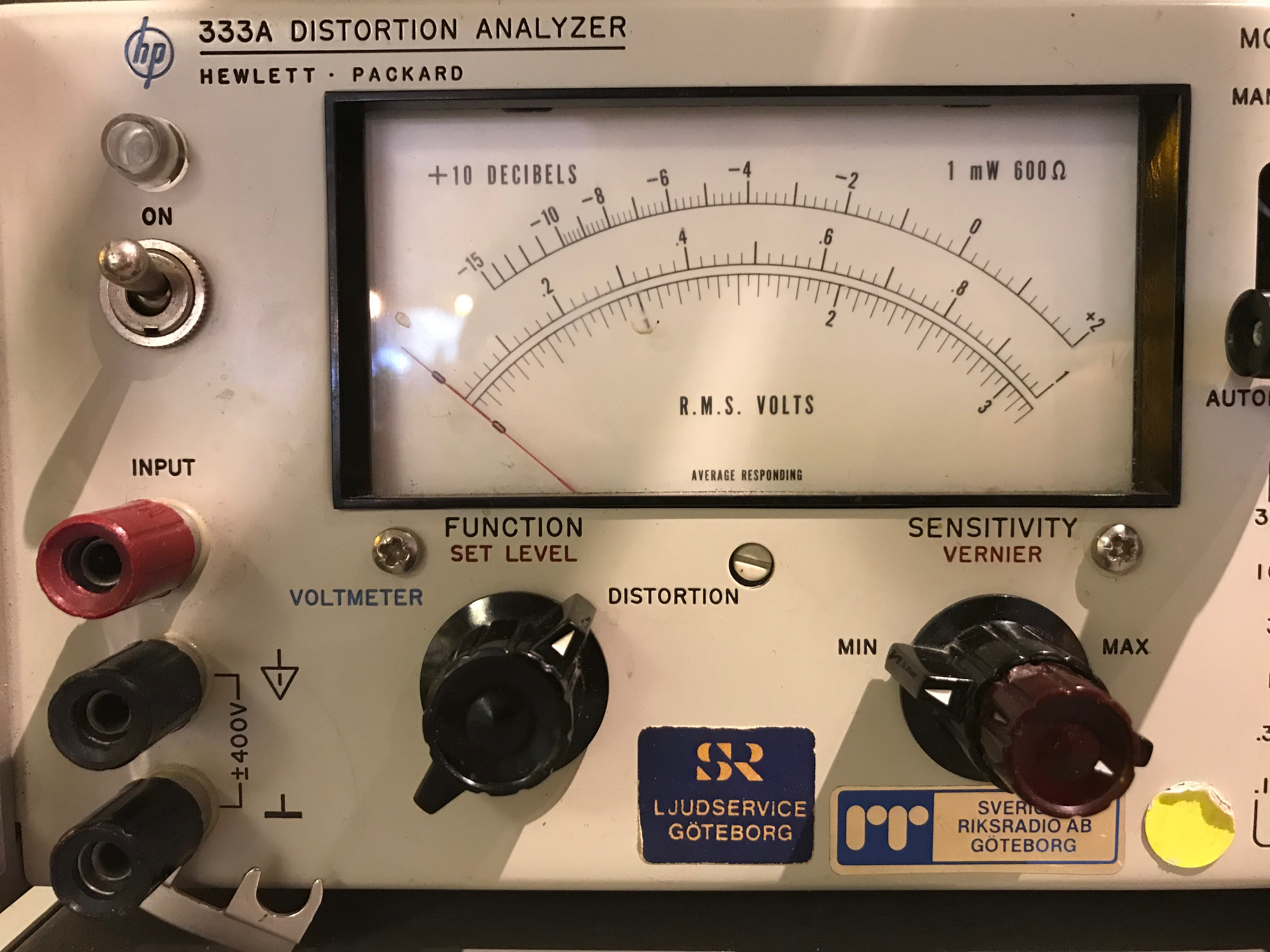 A Distortion Analyzer 333A by Hewlett Packard used by the Swedish Radio's P4 local radiostation in Gothenburg.